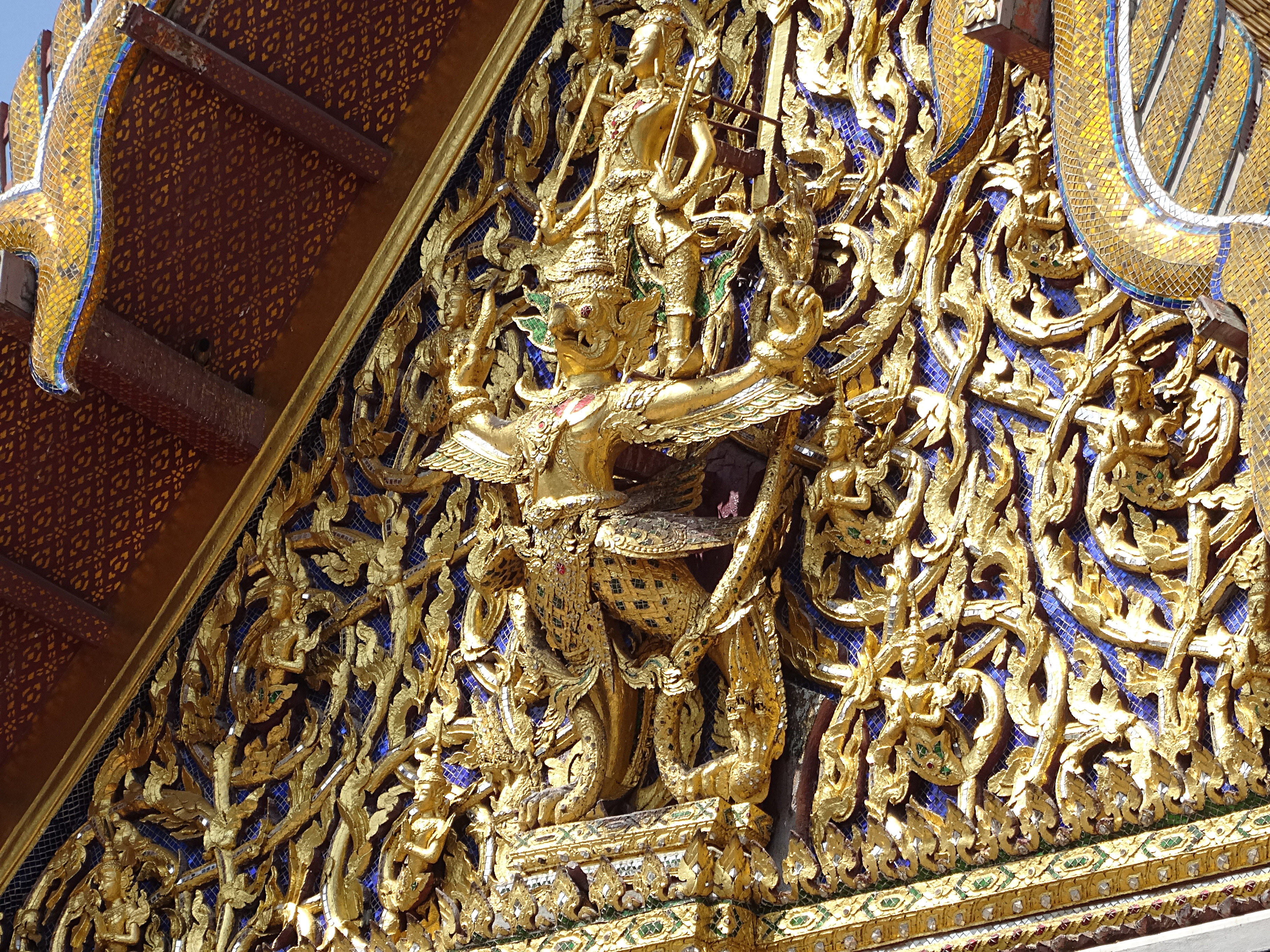 Vishnu riding on Garuda, detail at the Temple of the Emerald Buddha in the Grand Royal Palace from Bangkok